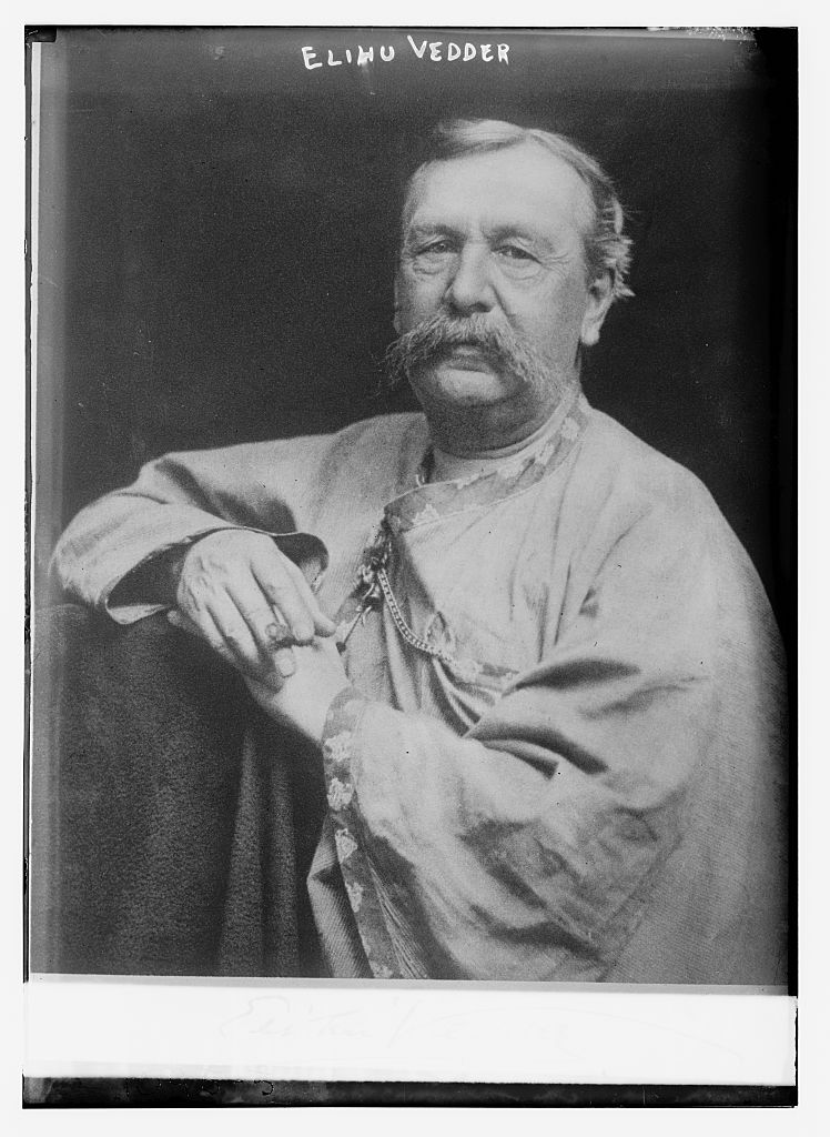 Photograph of American Artist Elihu Vedder